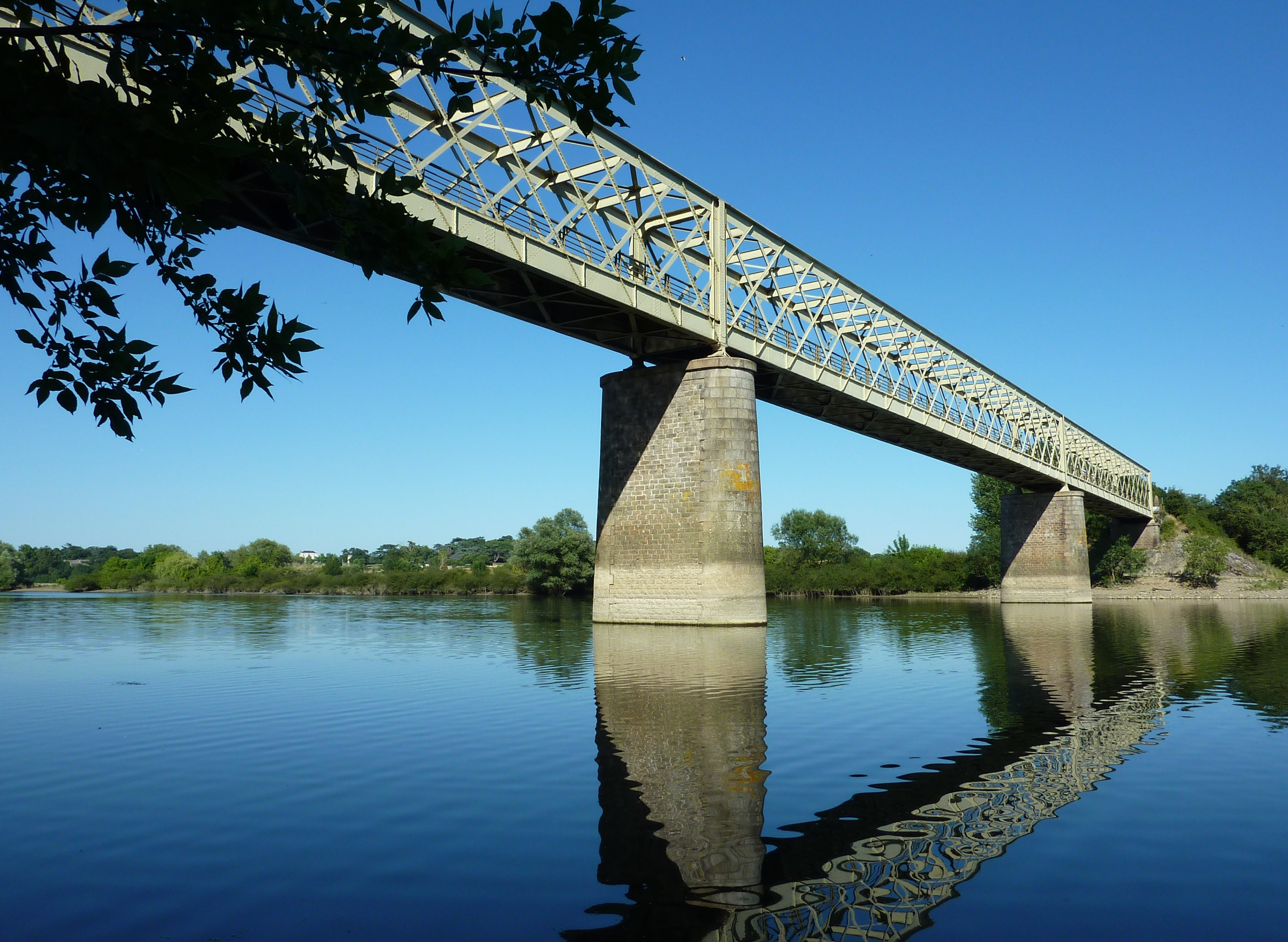 The Prunier Bridge over the Maine in Angers (Maine-et-Loire)